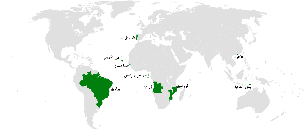 This map is showing the Lusophone world. *Angola *Brazil *Cape Verde *East Timor *Equatorial Guinea *Guinea-Bissau *Macau *Mozambique *Portugal *São Tomé and Príncipe